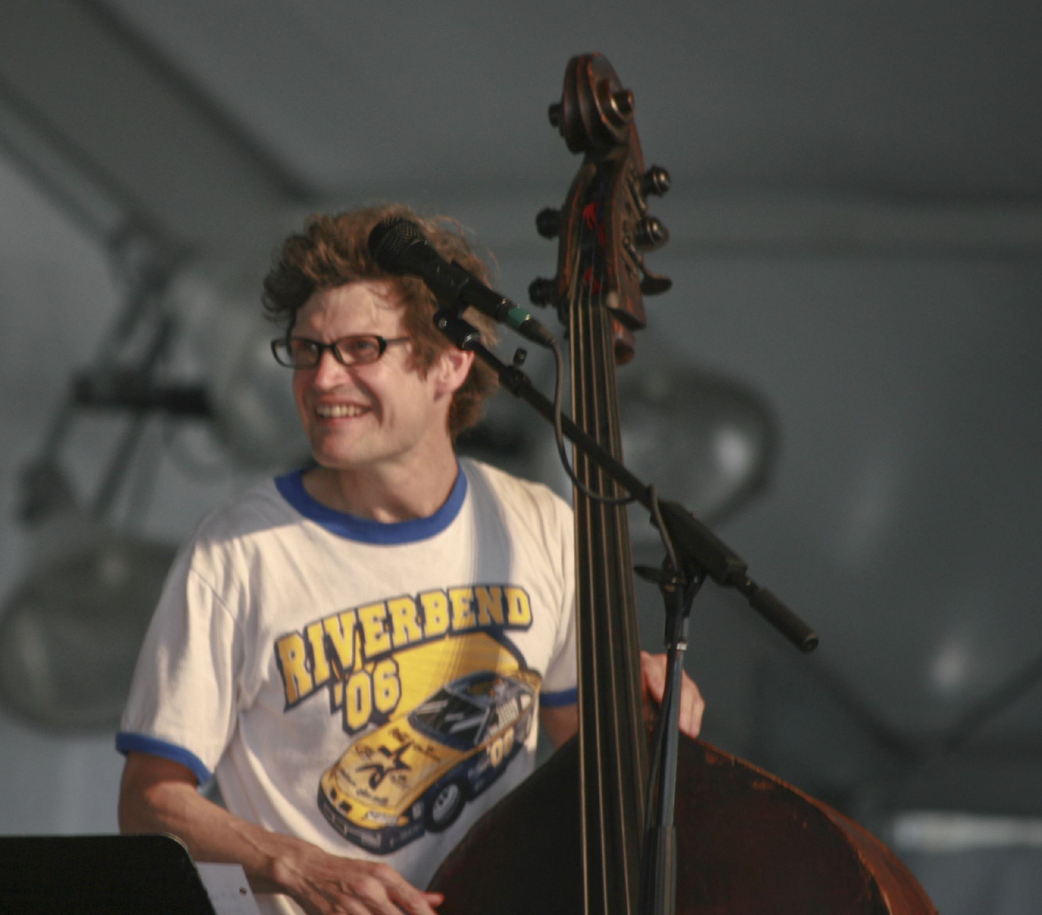 James Singleton at the New Orleans Jazz & Heritage Festival performing as Woodshed (with Roland Guerin and Tim Green) on May 4, 2007.